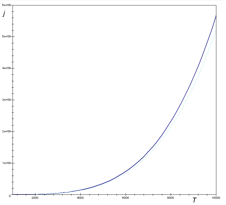 Graph of a function of total emitted energy of a black body j ⋆ {\displaystyle j^{\star proportional to the fourth power of its thermodynamic temeprature T {\displaystyle T\,} according to the Stefan–Boltzmann law. In turquoise colour is a total energy according to the Wien approximation, equals j ⋆ / ζ ( 4 ) ≈ 0.923938 j ⋆ {\displaystyle j^{\star }/\zeta (4)\approx 0.923938j^{\star .